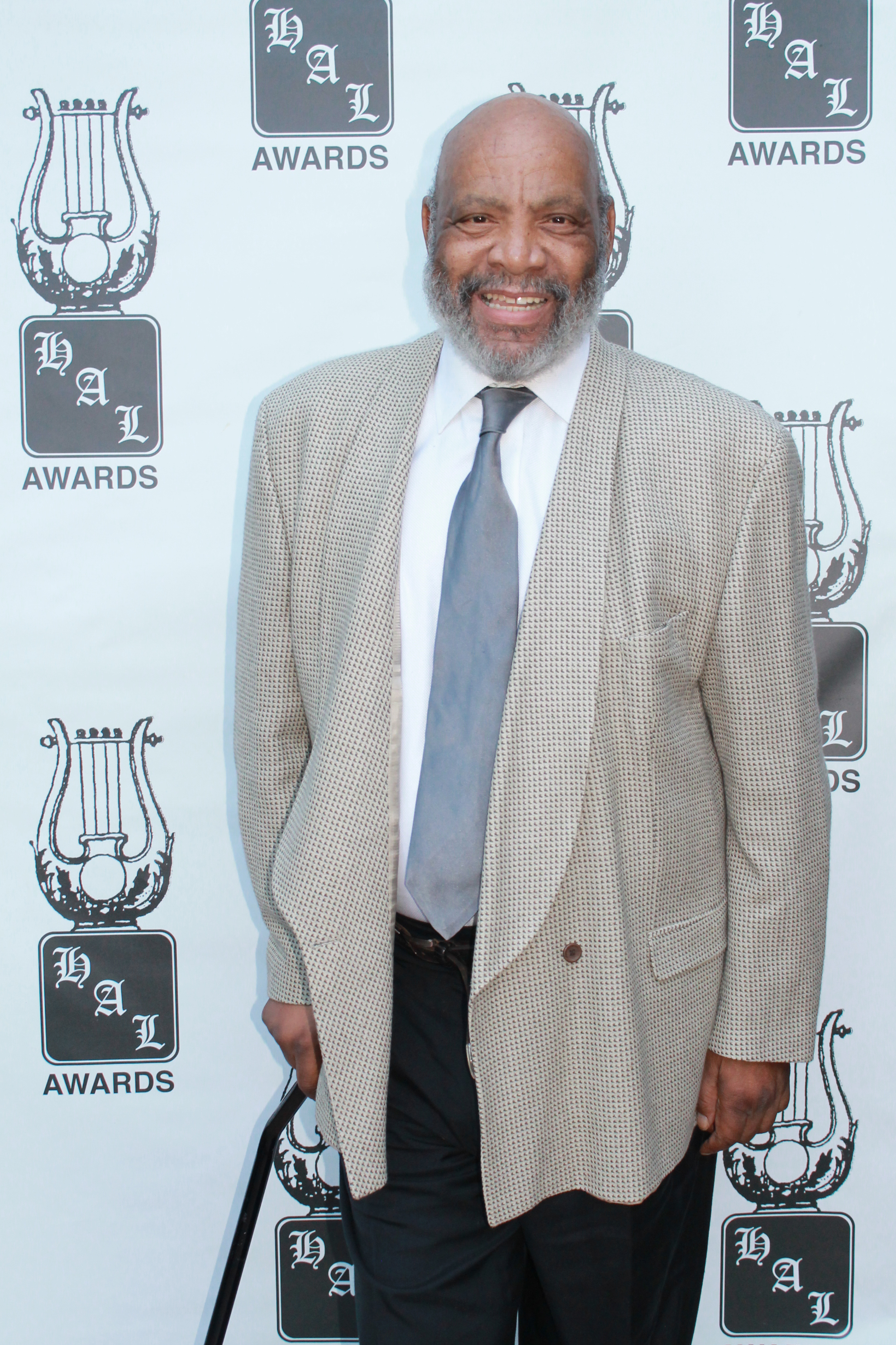 James Avery on the red carpet at the Heroes and Legends Awards in Beverly Hills, September 22nd 2013